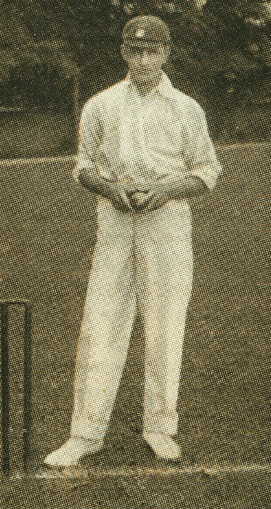 Smith's "Albion" Gold Flakes Cigarette Card of Charlie Llewllyn, part of the 1912 Cricketers series.